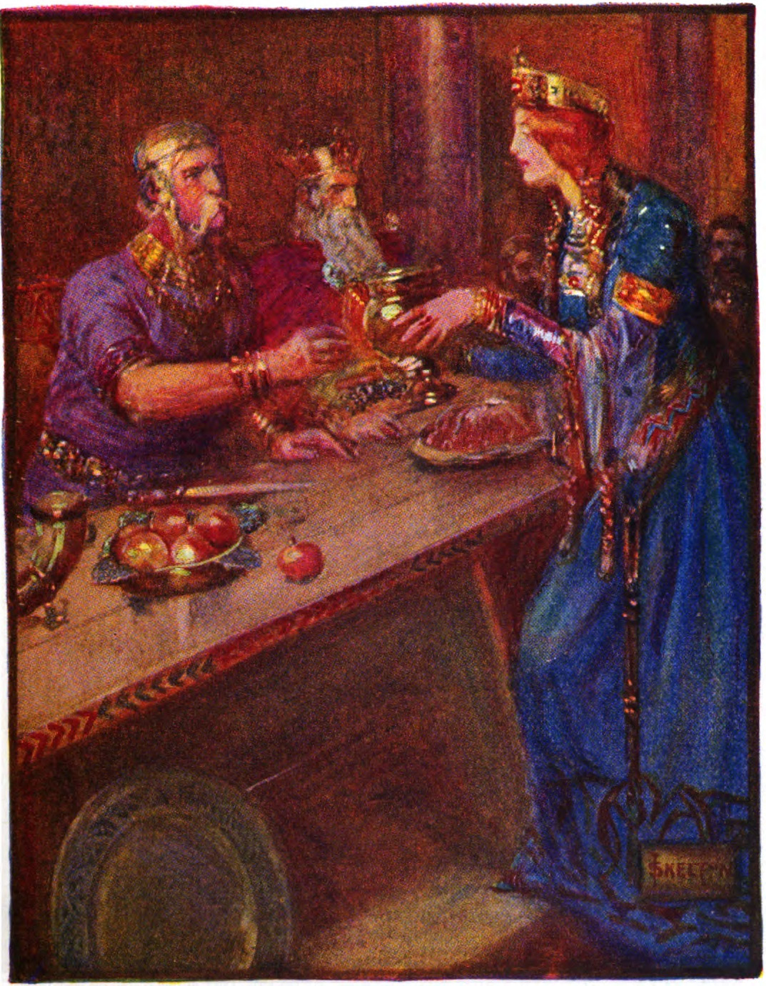 "Then forth from the bower came Wealtheow, Hrothgar's queen. Stately and tall, and very beautiful she came, clothed in rich garments girdled with gold. A golden crown was upon her head, and jewels glittered upon her neck. In her hand she held a great golden cup. set with gems. First to King Hrothgar she went and gave to him the beaker. 'Hail to thee,' she cried, 'mayest thou have joy of the drinking, joy of the feast, ever dear to thy people.' And Hrothgar drank, merry of heart, glad with thoughts of the morrow. Then through all the Hall Wealtheow moved, speaking gracious words, giving to each warrior, young and old, wine from the golden cup. At last she, the crowned queen, courteous and beautiful, came to Beowulf. Graciously Wealtheow smiled upon the Goth lord, holding the beaker to him. ' I thank the Lord of All, that thou art come to us,' she said. 'Thou art come, noble earl, to bring us comfort, and to deliver us out of our sorrows.' The fierce warrior bowed before the beautiful queen, as he held the wine-cup. He felt the joy of battle rise within him, and aloud he spake: ' I sware it when I did set out upon the deep sea, as I stood by my comrades upon the ship. I sware that I alone would do the deed or go down to death in the grip of the monster. As an earl I must fulfil my word, or here in the Hart Hall must I await my death-day.'" An illustration in Beowulf of the queen pouring wine for the warrior. Marshall, Henrietta Elizabeth (1908) Stories of Beowulf, T.C. & E.C. Jack, p. 29 Stories of Beowulf-1 Page 050 Image 0002.jpg